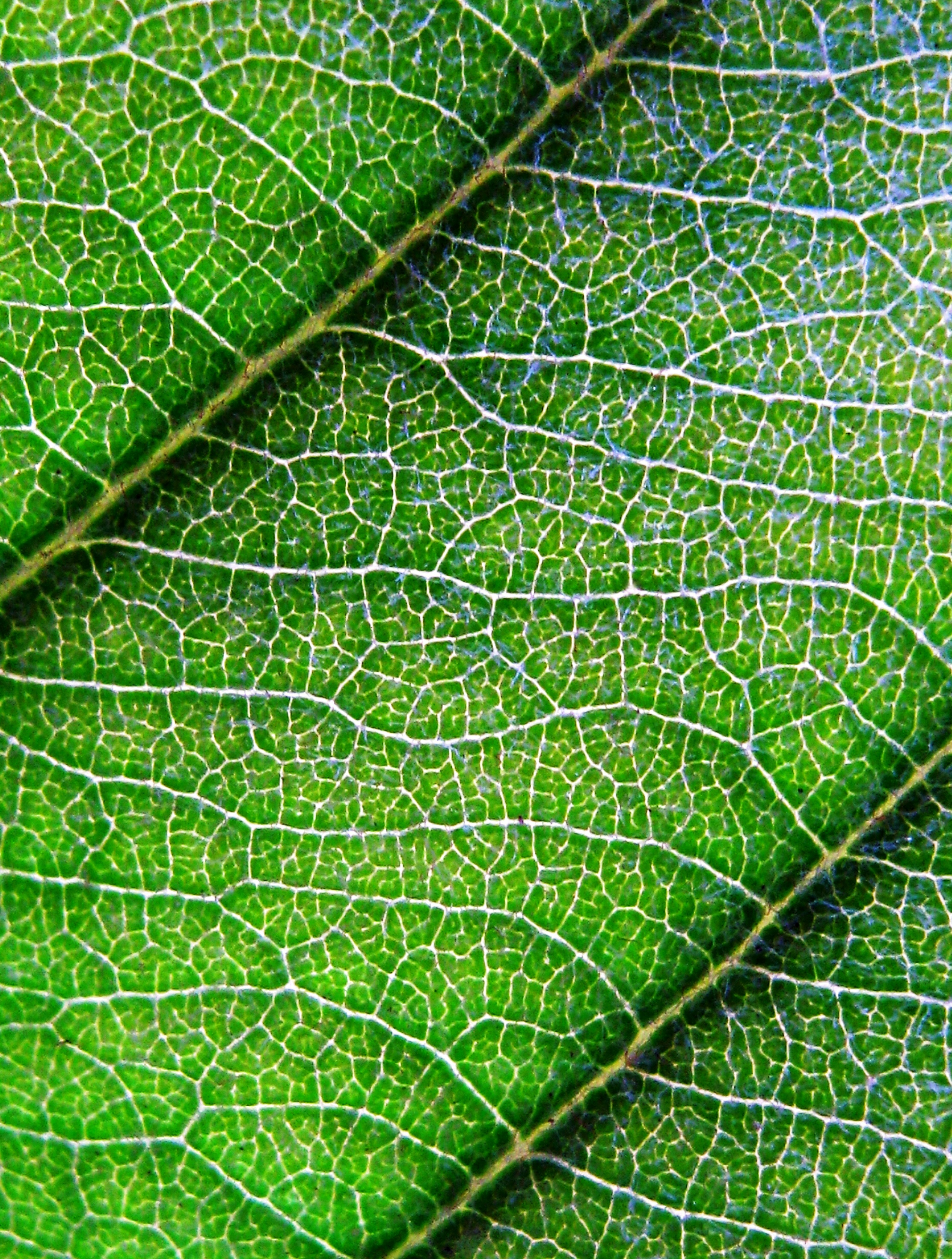 A macro shot of a loquat leaf, (Eriobotrya japonica), showing detail of the upper side of the leaf.